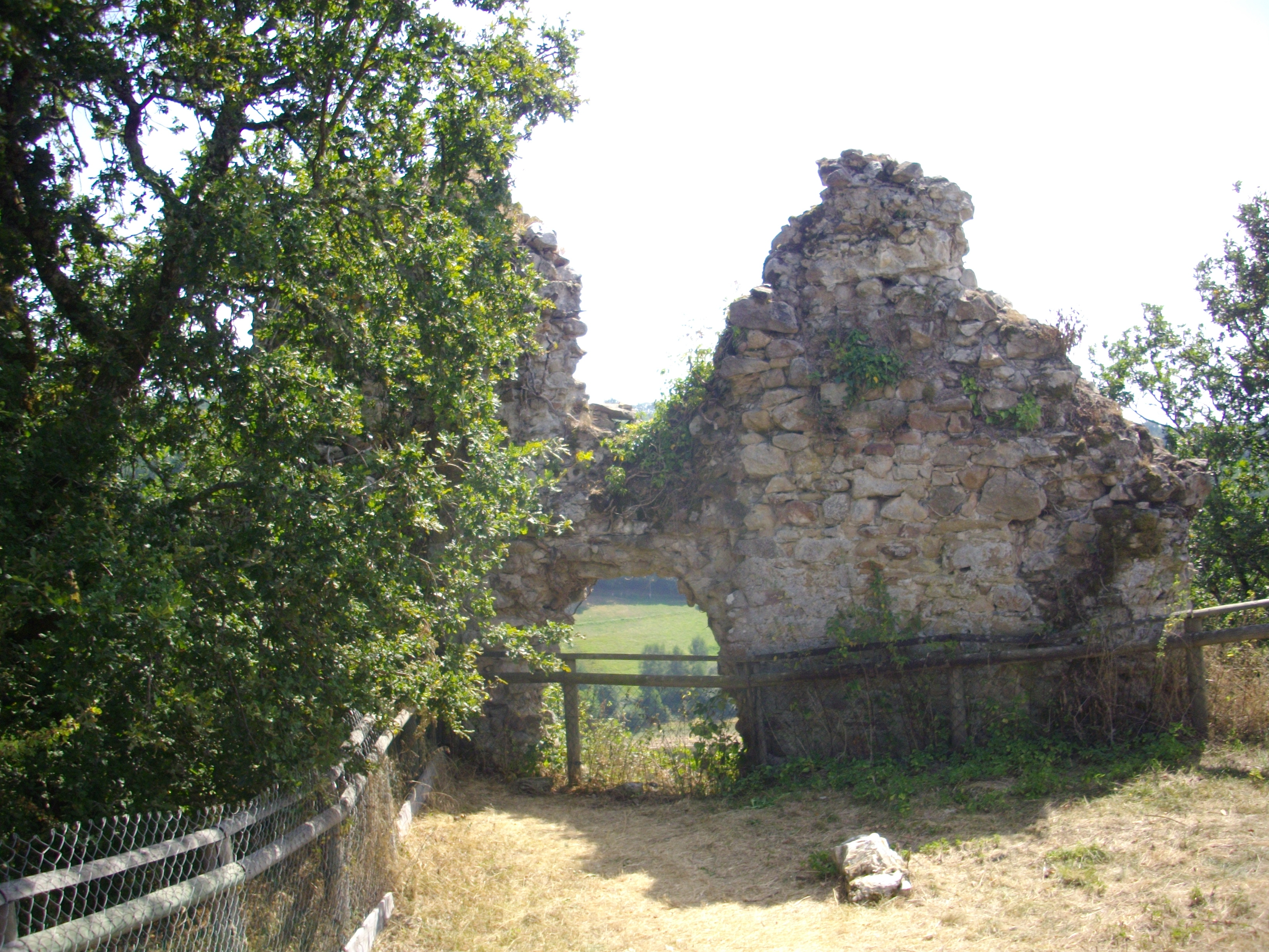 Ruins of th Thynières castle in Beaulieu (Cantal, France)